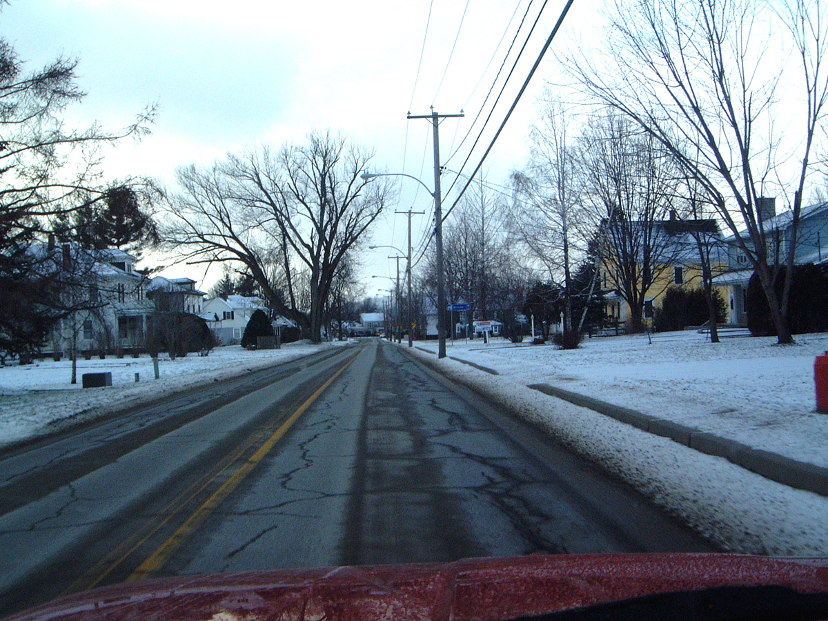 Rue Canusa/Canusa Street in Beebe Plain and the Beebe Plain district of Stanstead. Taken by Kether83, licenced for use on the corresponding Wikipedia article. This is on the Canadian side of the road; the view is looking west.